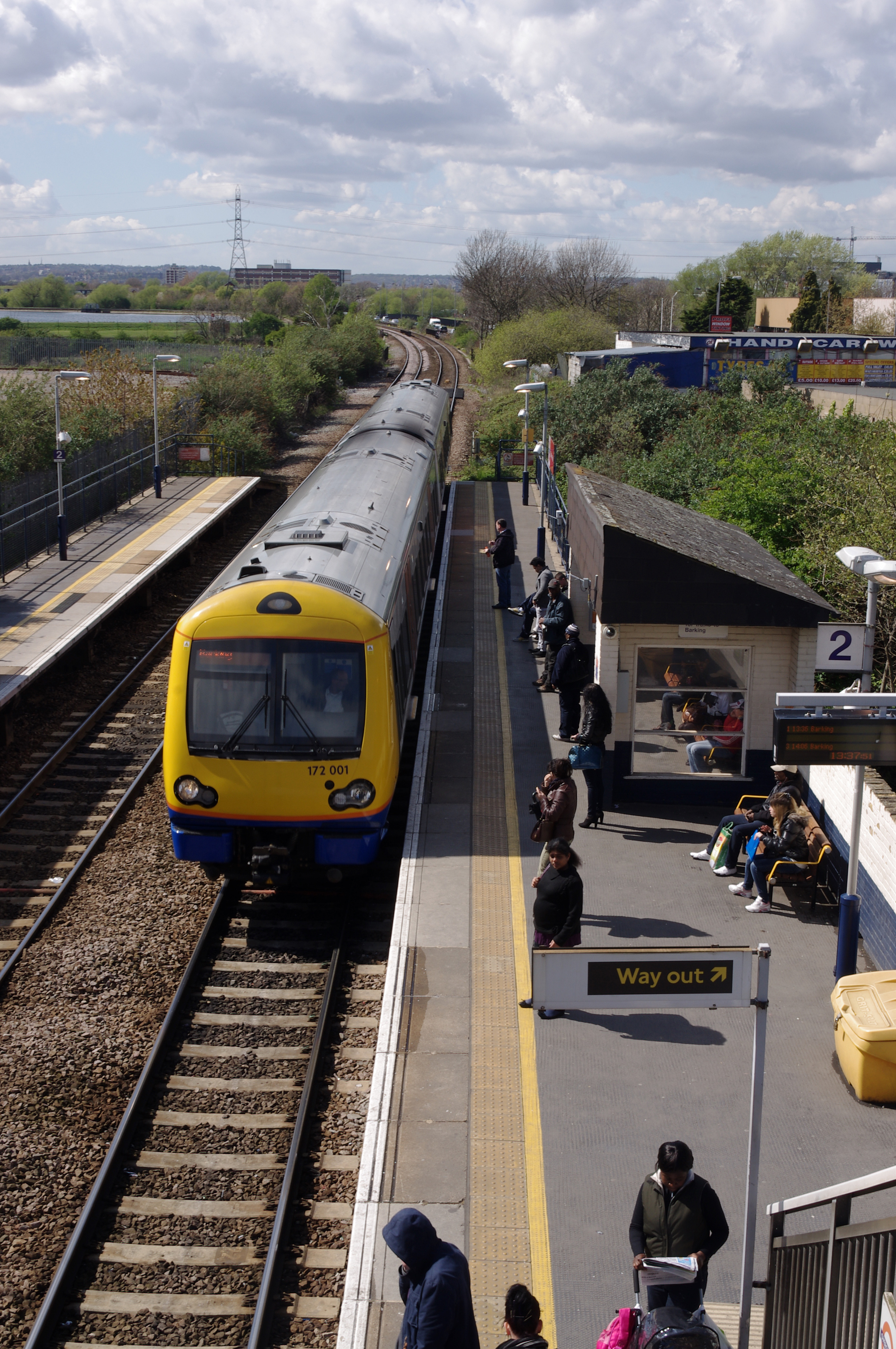 London Overground Class 172 "Turbostar" DMU 172001 arrives at Blackhorse Road with a Gospel Oak to Barking service.